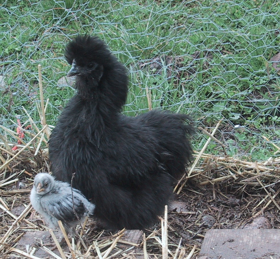 A Black Silkie hen and a chick (may not be her own, Silkies often mother the chicks of other fowl).